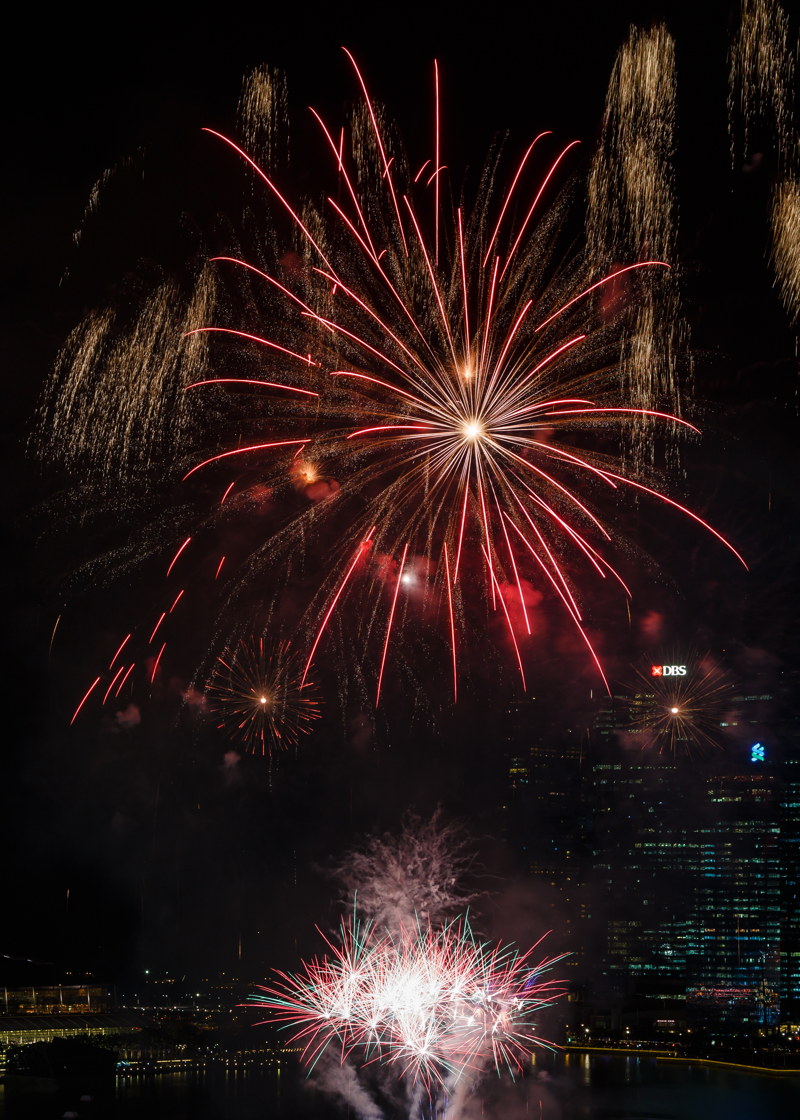 Marina Bay, Singapore: Firework display at midnight in Marina Bay, launching the Chinese New Year 2015